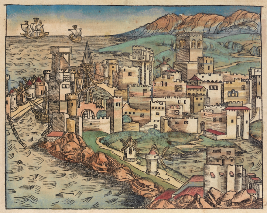 This is a part of a scan of an historical document: Title: Schedelsche Weltchronik or Nuremberg Chronicle